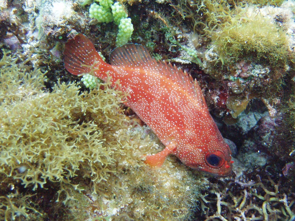 Juvenile Scorpion Fish at Ned's Beach, Lord Howe Island